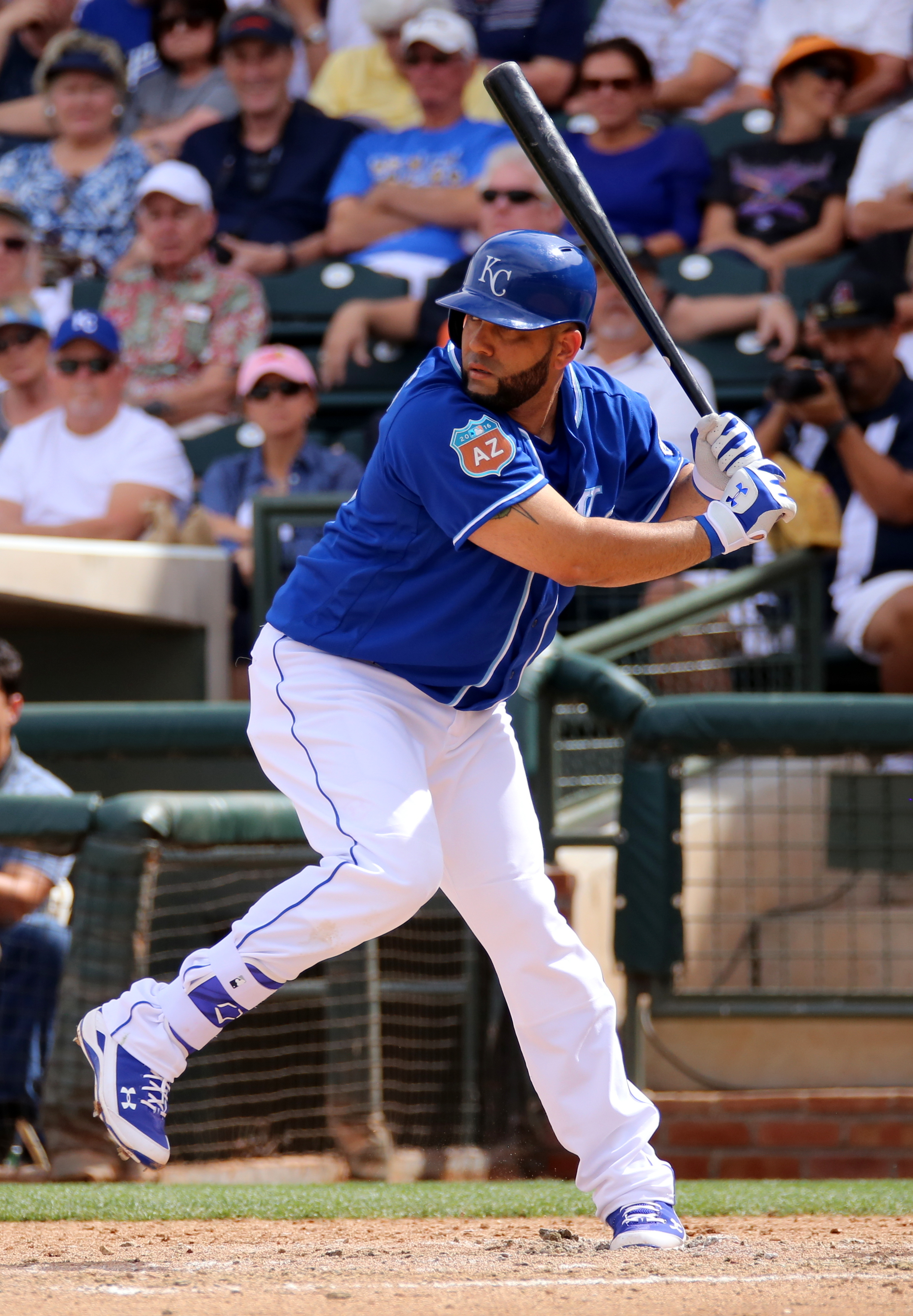 Royals slugger Kendrys Morales awaits a pitch.